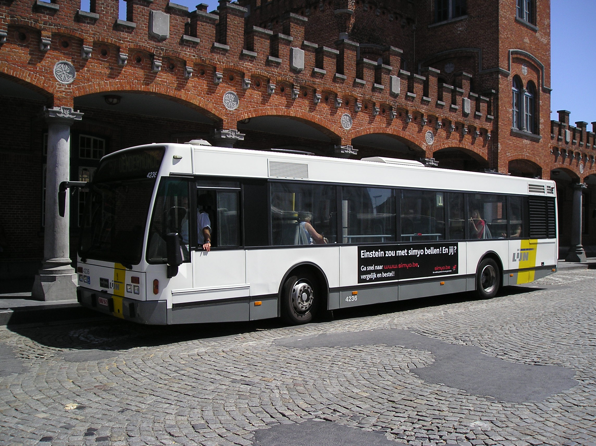 Van Hool bus in front of the Aalst train station.